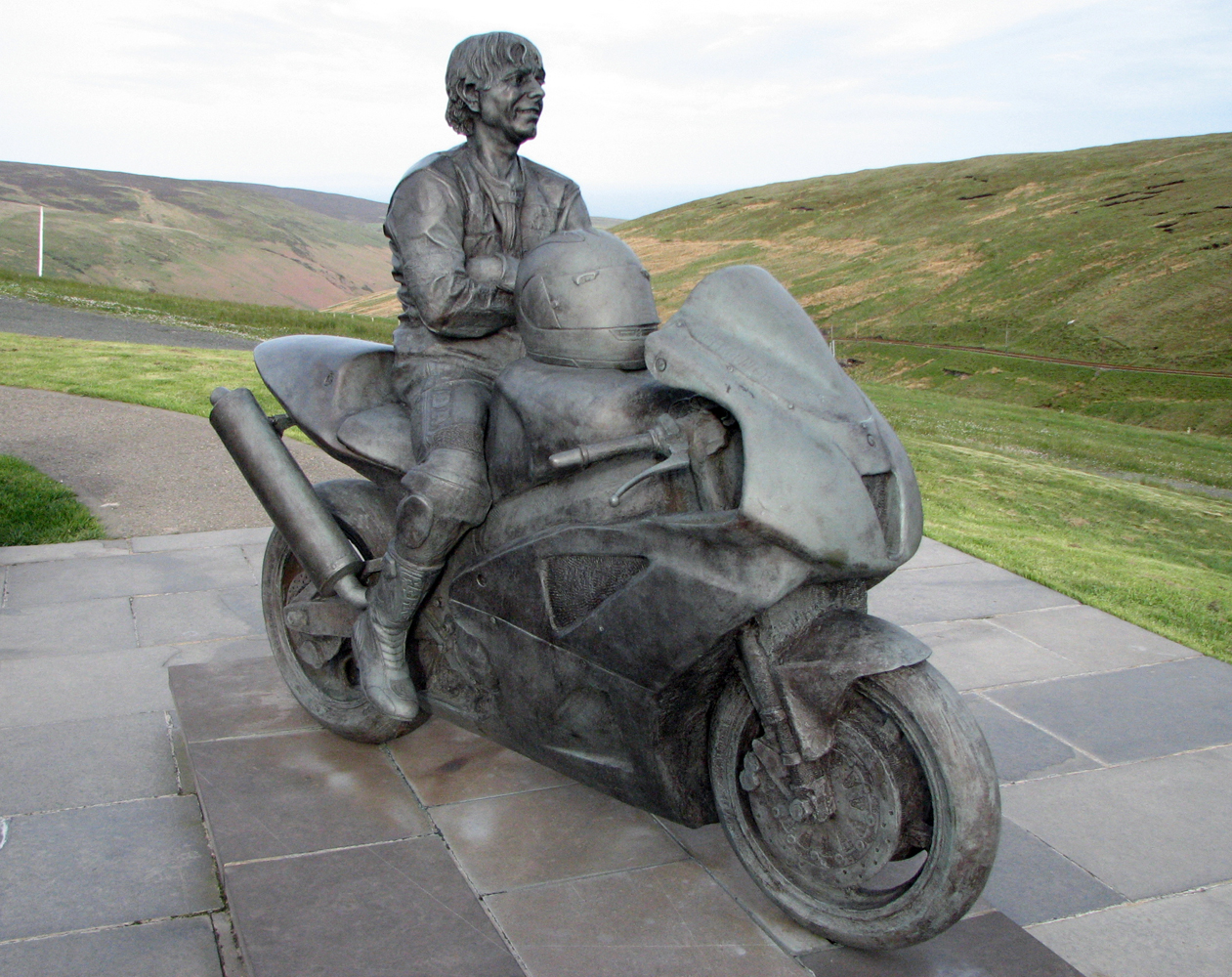 Statue of TT Races biker, Isle of Man. This is Joey Dunlop. Sculpture from 2002 by Manx sculptor Amanda Barton